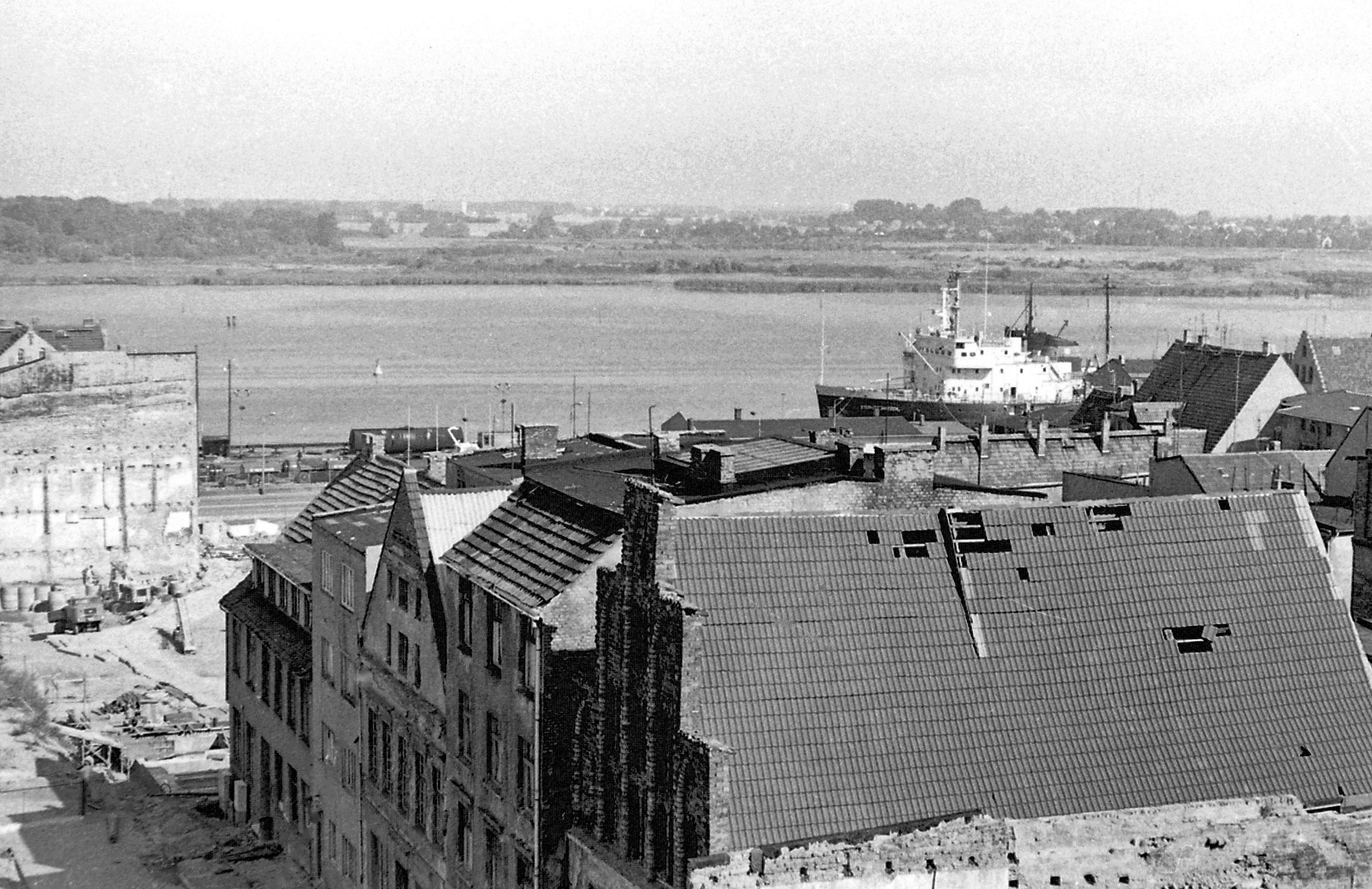 Baustelle Wokrenterstraße in Rostock Information about Stephan Jantzen may be found at IMO 7117486.A ship can change name and flag state through time, but the IMO number remains the same through the hull's entire lifetime. As a result, it can be useful to identify a ship by using the IMO number.